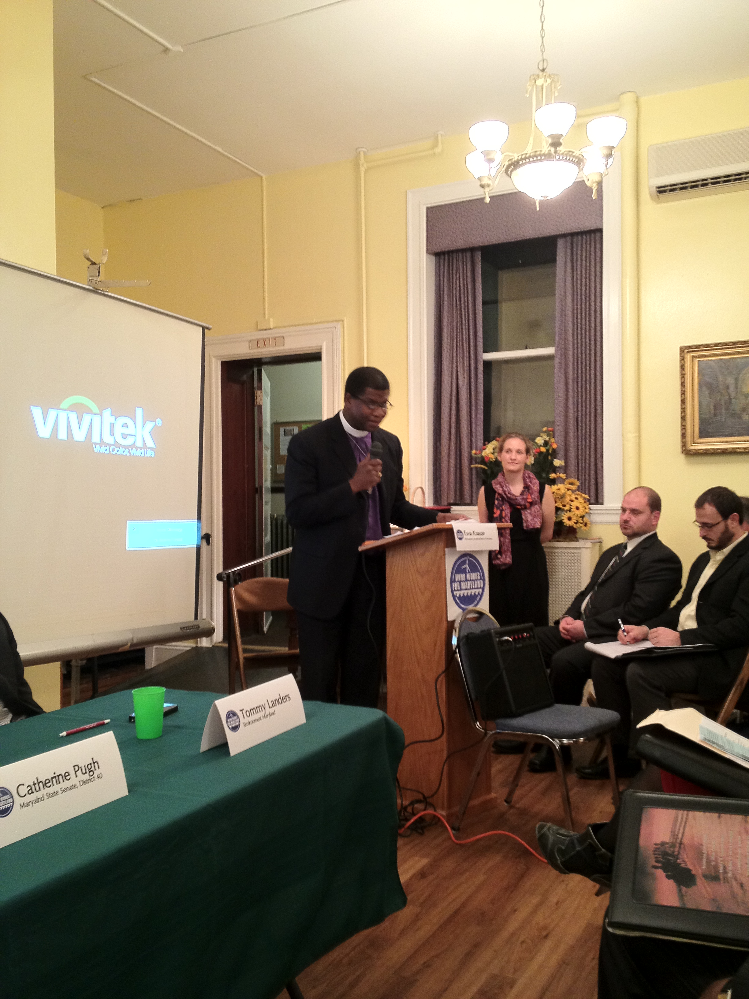 Bishop Eugene Sutton